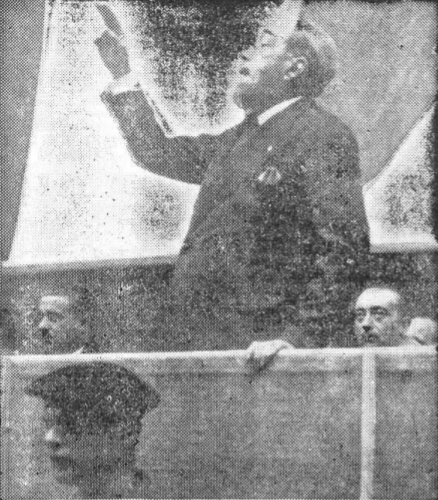 Rafael Díaz Aguado y Salaberry pronunciando un discurso durante un mítin tradicionalista en Sevilla el 2 de febrero de 1936.